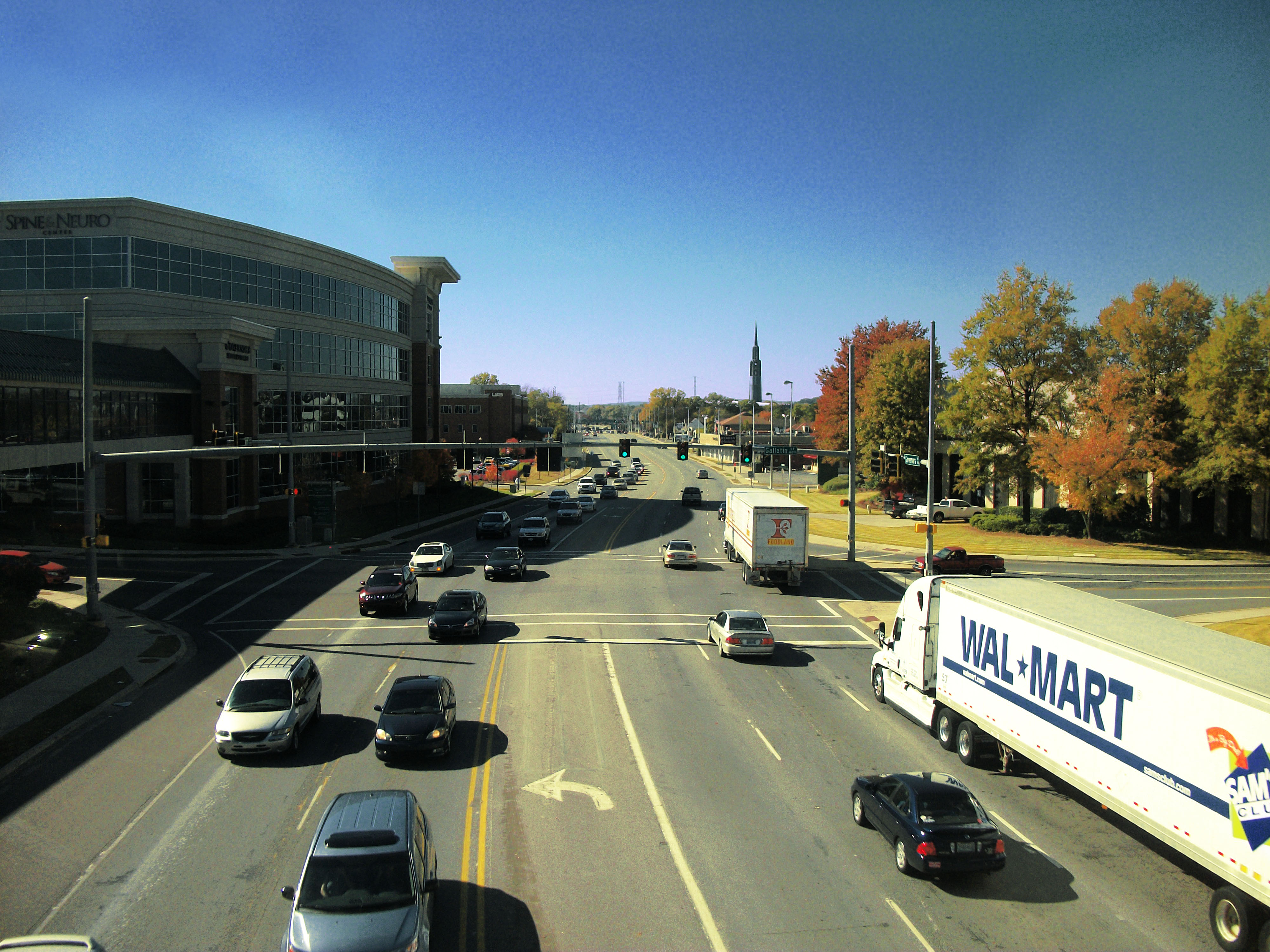 A photograph of Governors Drive in Huntsville taken by Larry Wilbourn on November 2, 2011.